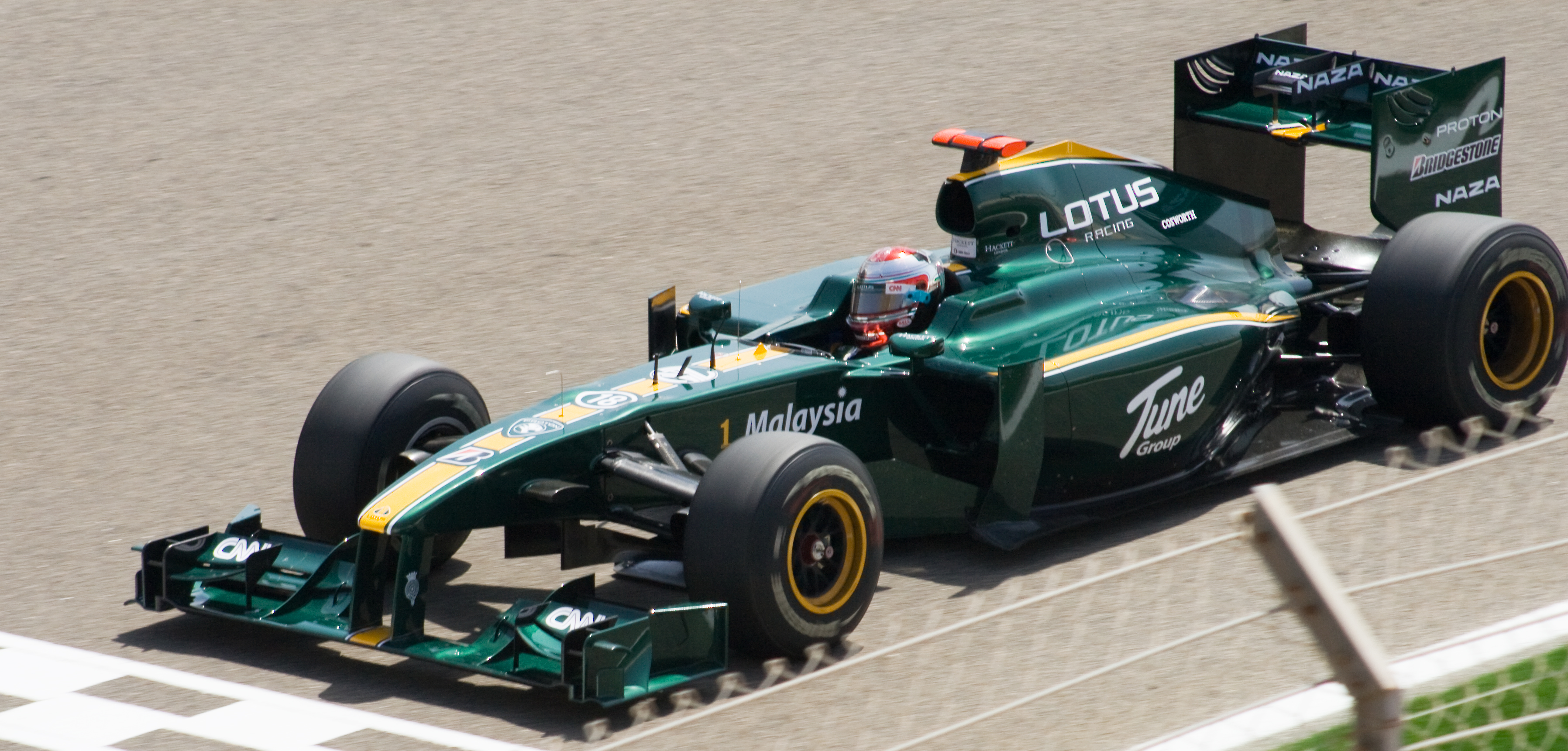 Lotus T127 in Bahrain